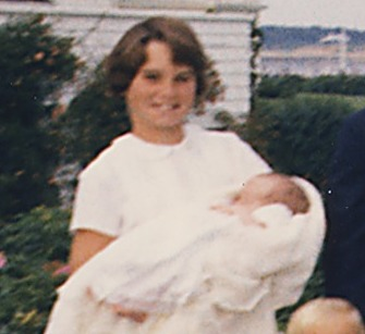 Scope and content: Hyannisport Weekend- President Kennedy with children. Kathleen Kennedy ( holding Christopher Kennedy ) Edward Kennedy Jr.,Joseph P. Kennedy II, Kara Kennedy, Robert F. Kennedy Jr., David Kennedy, Caroline Kennedy, President Kennedy, Michael Kennedy, Courtney Kennedy, Kerry Kennedy, Bobby Shriver ( holding Timothy Shriver ), Maria Shriver, Steve Smith Jr., Willie Smith, Christopher Lawford, Victoria Lawford, Sidney Lawford, Robin Lawford (in foreground- John F. Kennedy Jr.). Hyannisport, MA, Kennedy Compound